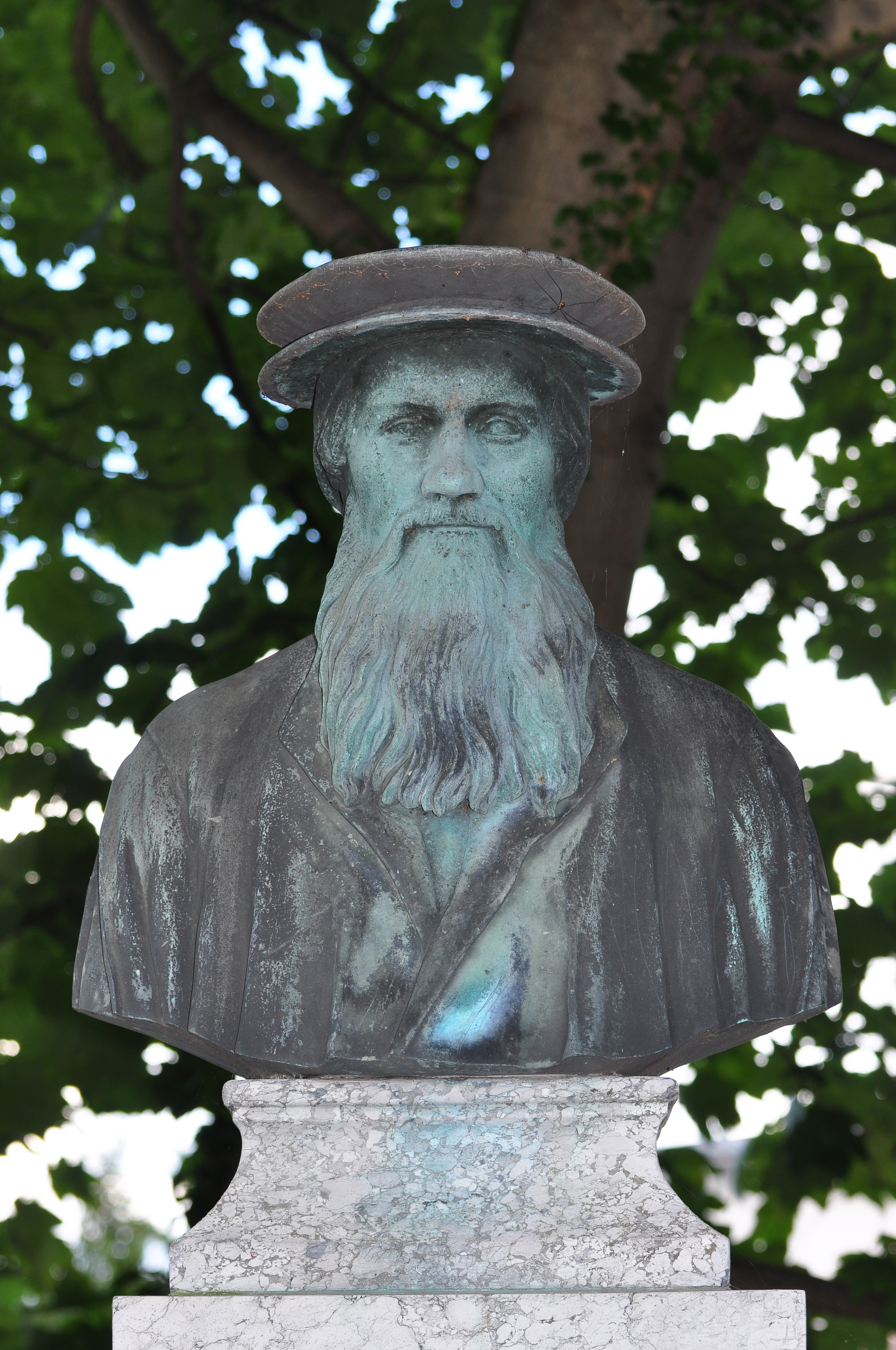 Zürich : Botanical Garden «zur Katz», Conrad Gessner (* 1516; † 1565) memorial.